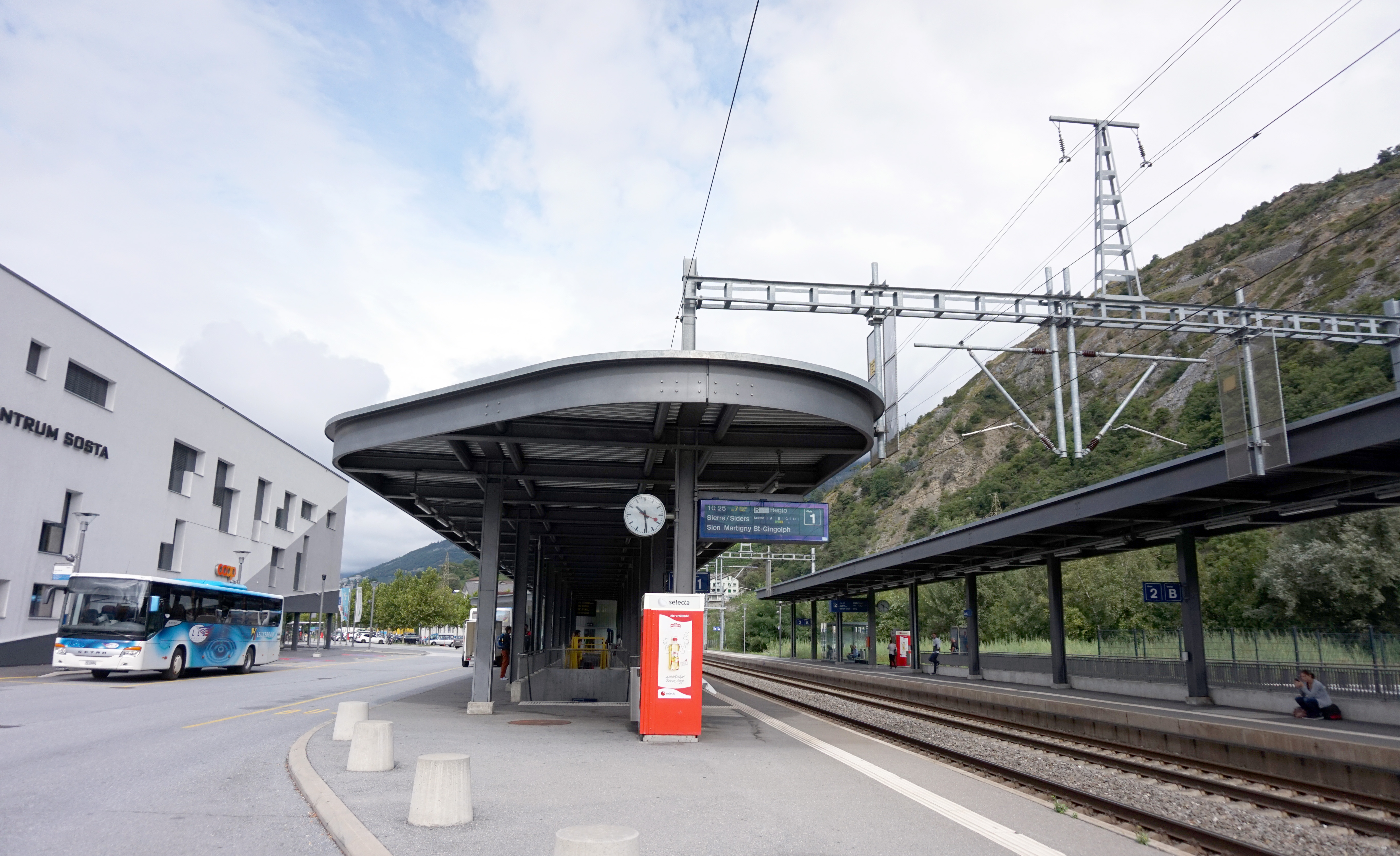 Leuk train station.This photograph was taken with a Sony ILCE-5000